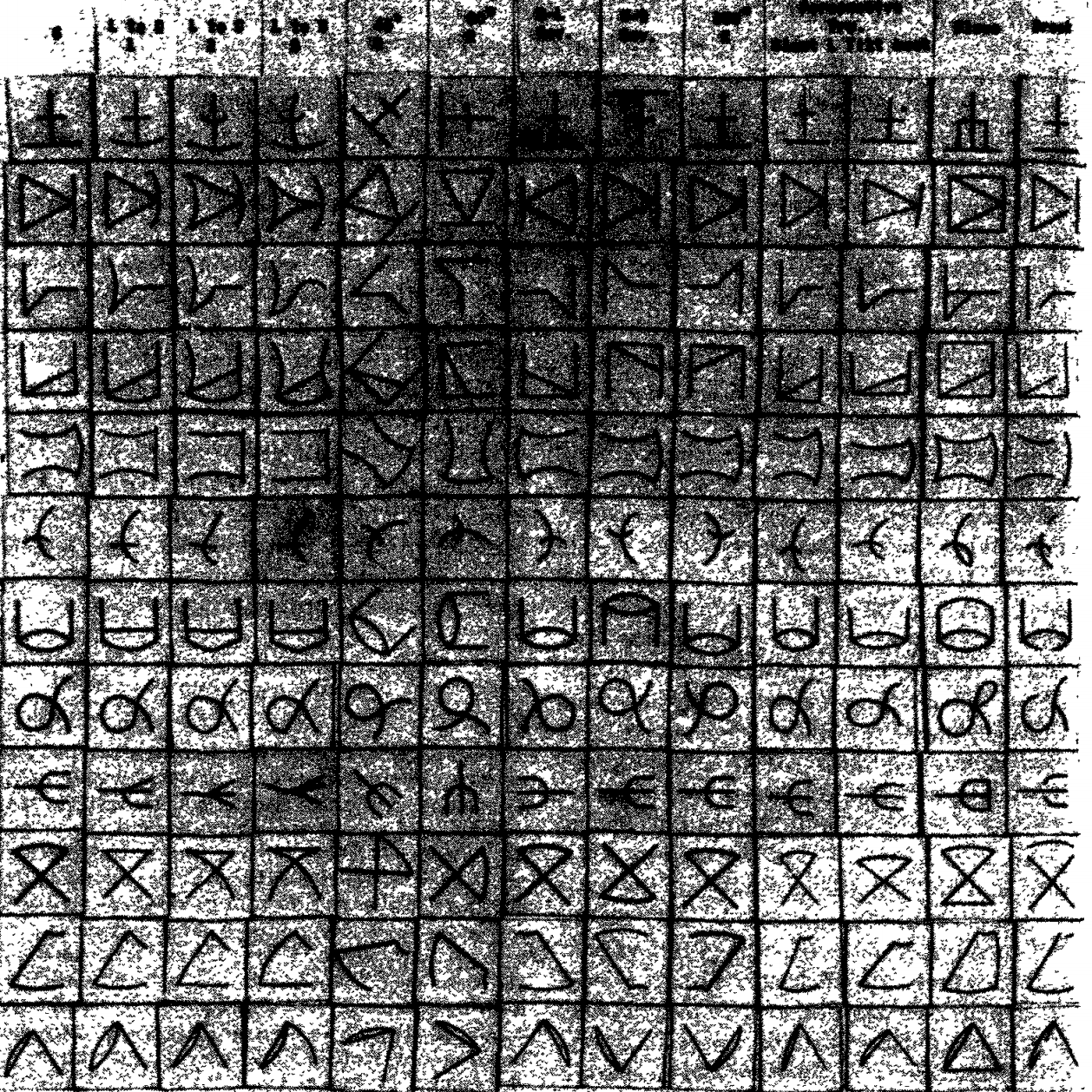 Taken from the study "A developmental study of the discrimination of letter-like forms", written by Gibson, E. J., Gibson, J. J., Pick, A. D., & Osser, H. (1962).